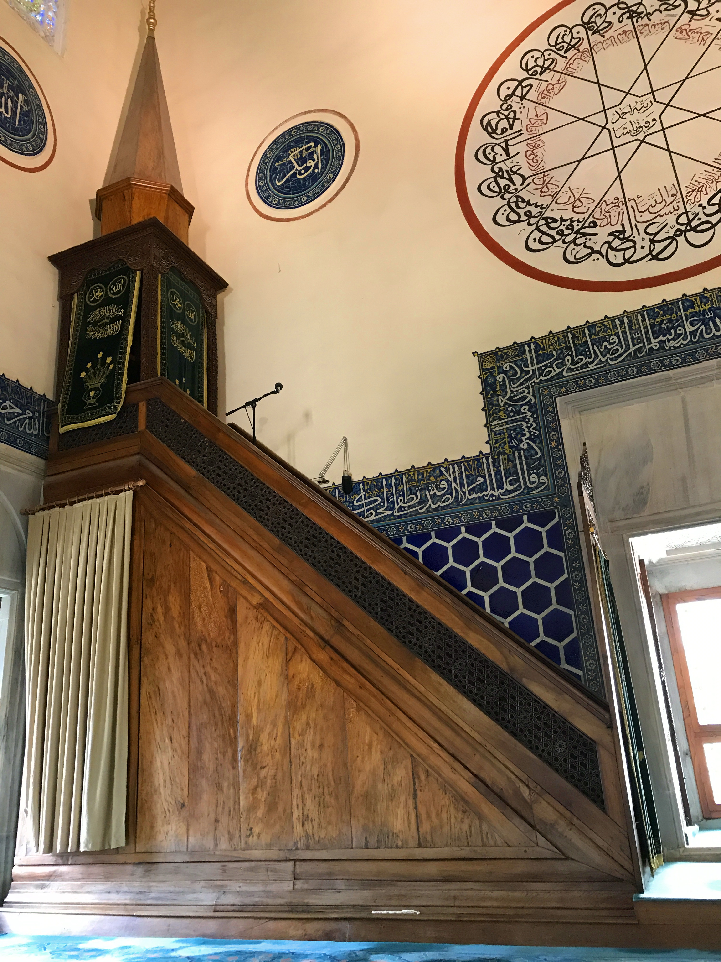 Green Mosque of Bursa, Turkey, 2017. Green Mosque (Turkish: Yeşil Camii, "Yeşil Mosque"), also known as Mosque of Sultan Mehmed I, is a part of the larger complex (a külliye) located on the east side of Bursa, Turkey, the former capital of the Ottoman Turks before they captured Constantinople in 1453. The complex consists of a mosque, türbe, madrasah, kitchen and bath.